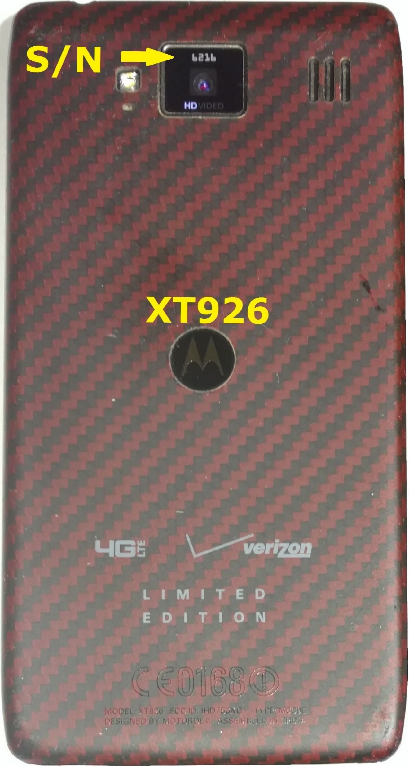 Picture of rear backing cover on Motorola Droid Razr Maxx HD Limited Edition (model XT926) for Verizon Wireless. The Limited Edition has red and black colored Kevlar weave, serial number on rear camera window, and the words "LIMITED EDITION" printed on it.